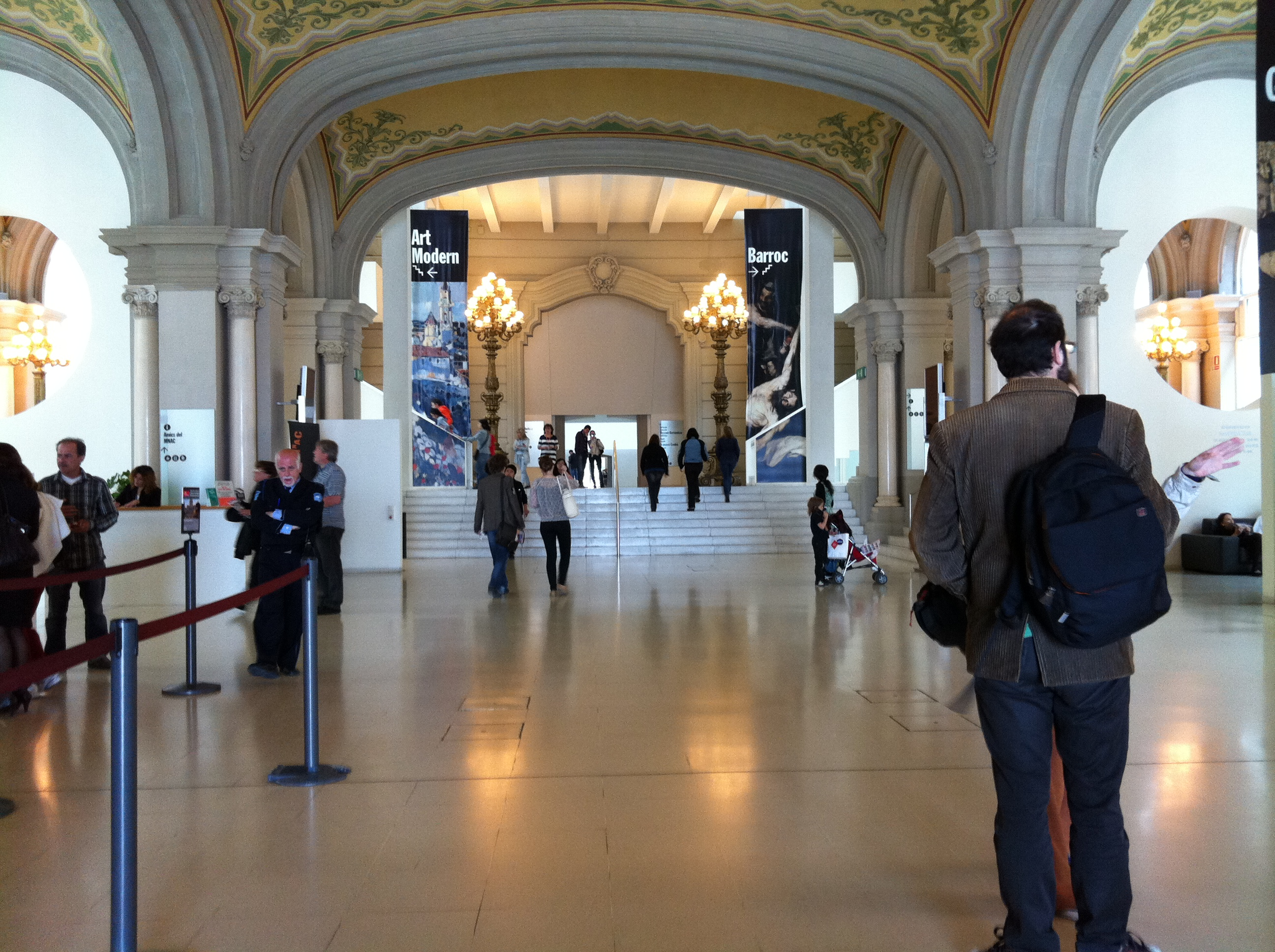 Interior rooms of Museu Nacional d'Art de Catalunya